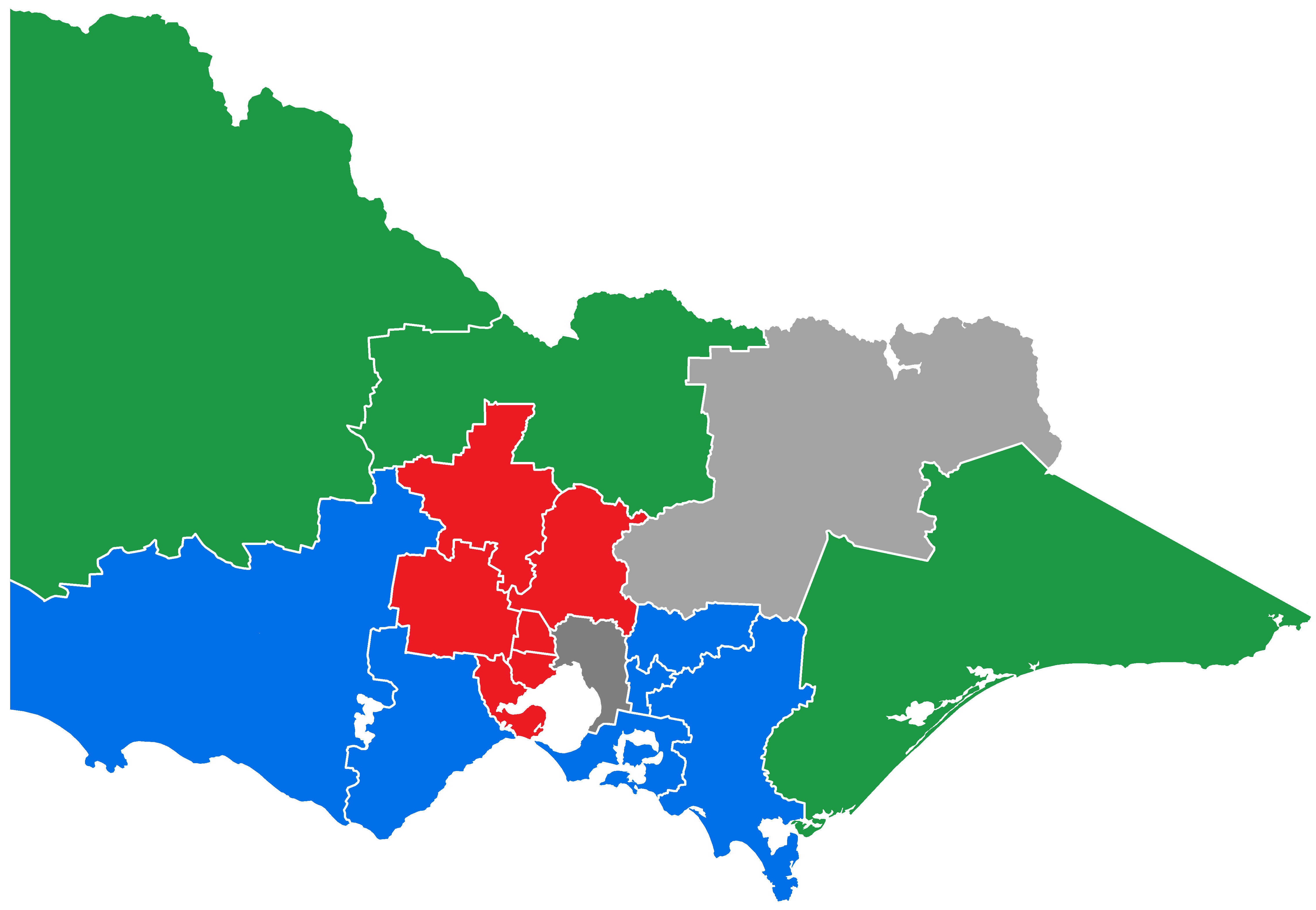 Results map of the Australian federal election, 2016 in Victoria, showing federal electorates decorated in the color representing a win by a particular party.